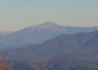 Mount Le Conte in the Great Smoky Mountains, looking southwest from Look Rock along the Chilhowee section of Foothills Parkway in Blount County, Tennessee (Southeastern U.S.).